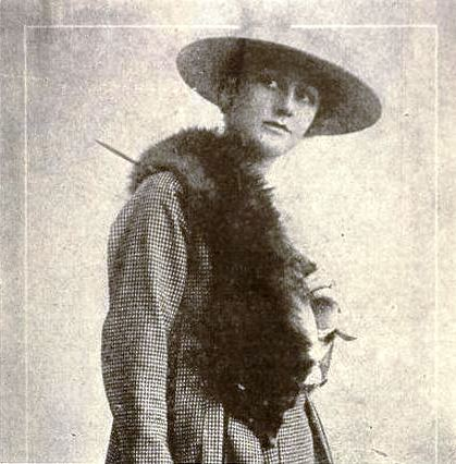 Still with Ruth Stonehouse playing Suzanne in the American film The Four Flusher (1919), from page 1471 of the August 16, 1919 Motion Picture News.